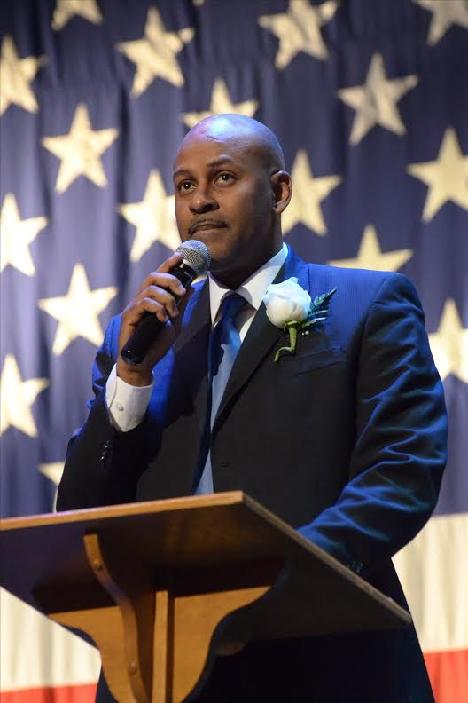 Mayor Percy Bland inauguration at Meridian Temple Theater on July 1, 2013